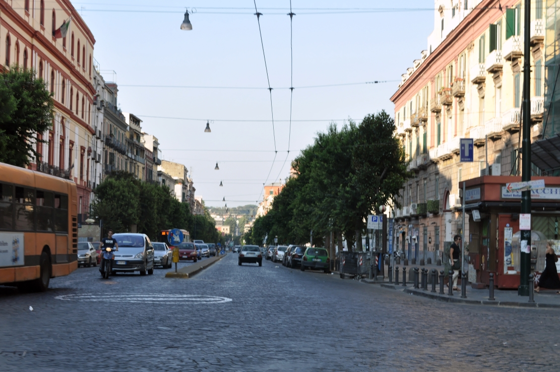 Neapel 2012